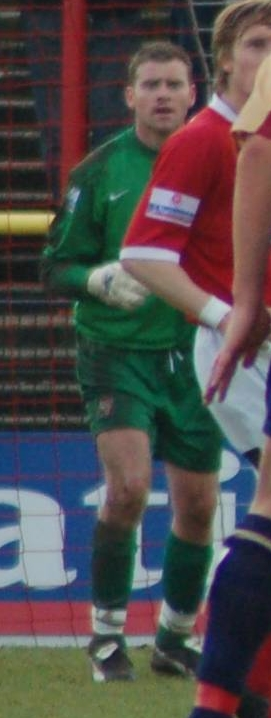 Tom Evans playing for York City against Weymouth at Bootham Crescent, York on 17 February 2007